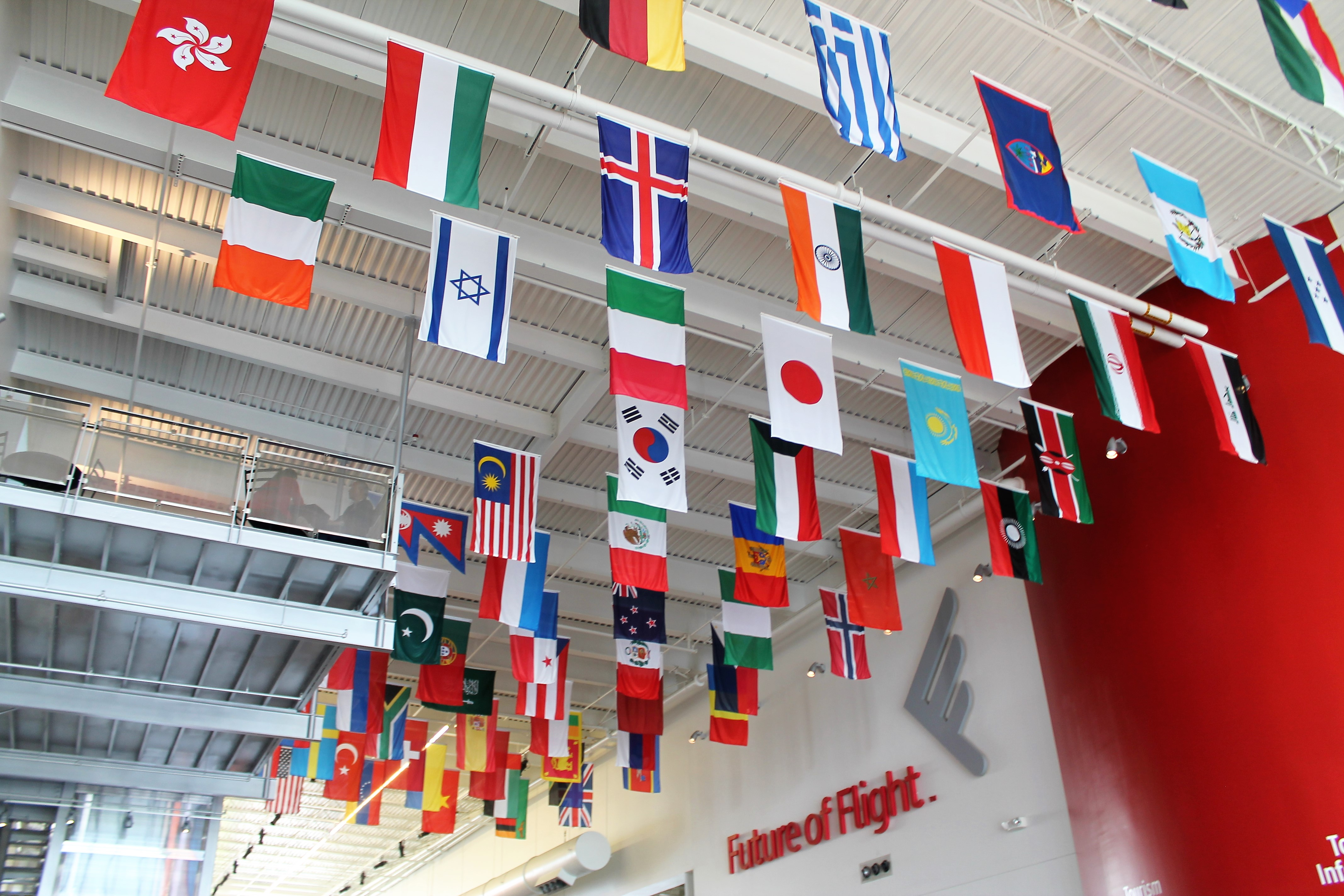 World Flag at the entrance